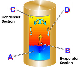 Heatpipe